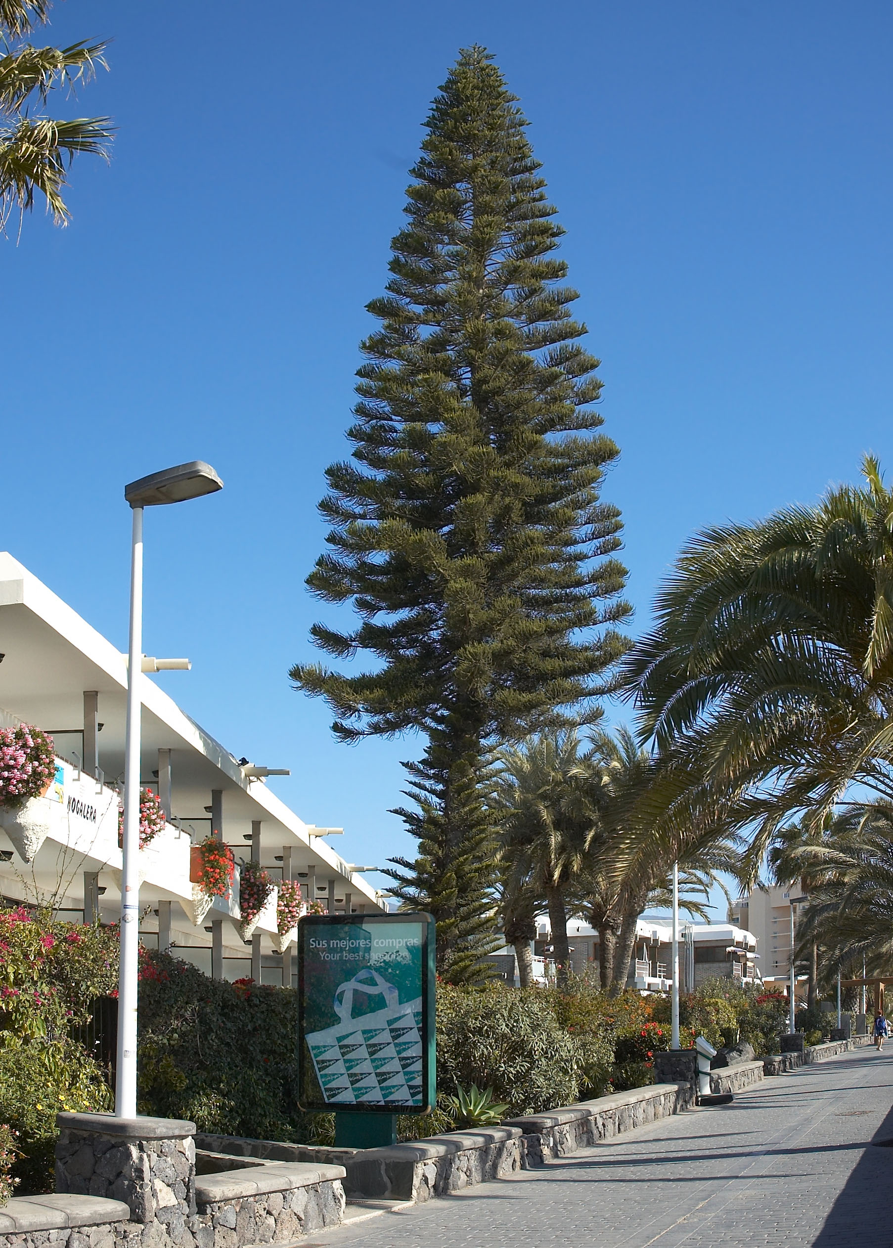 Araucaria columnaris in Gran Canaria, Playa del Inglés. The coordinates are for the tree. Other photos of the same tree